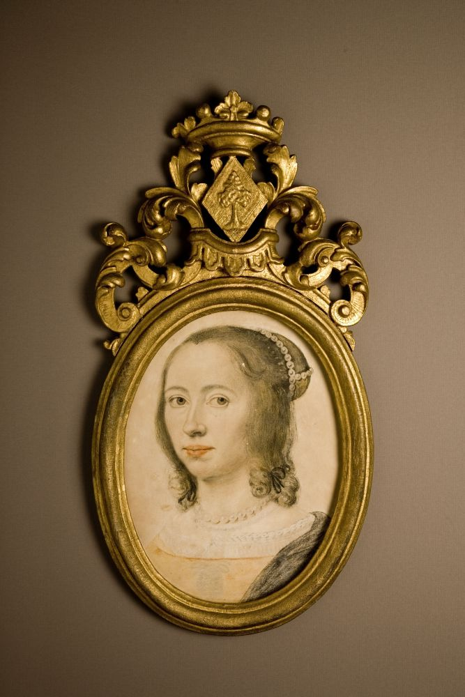 Self portrait by Anna Maria van Schurman (pastel, June 1640)